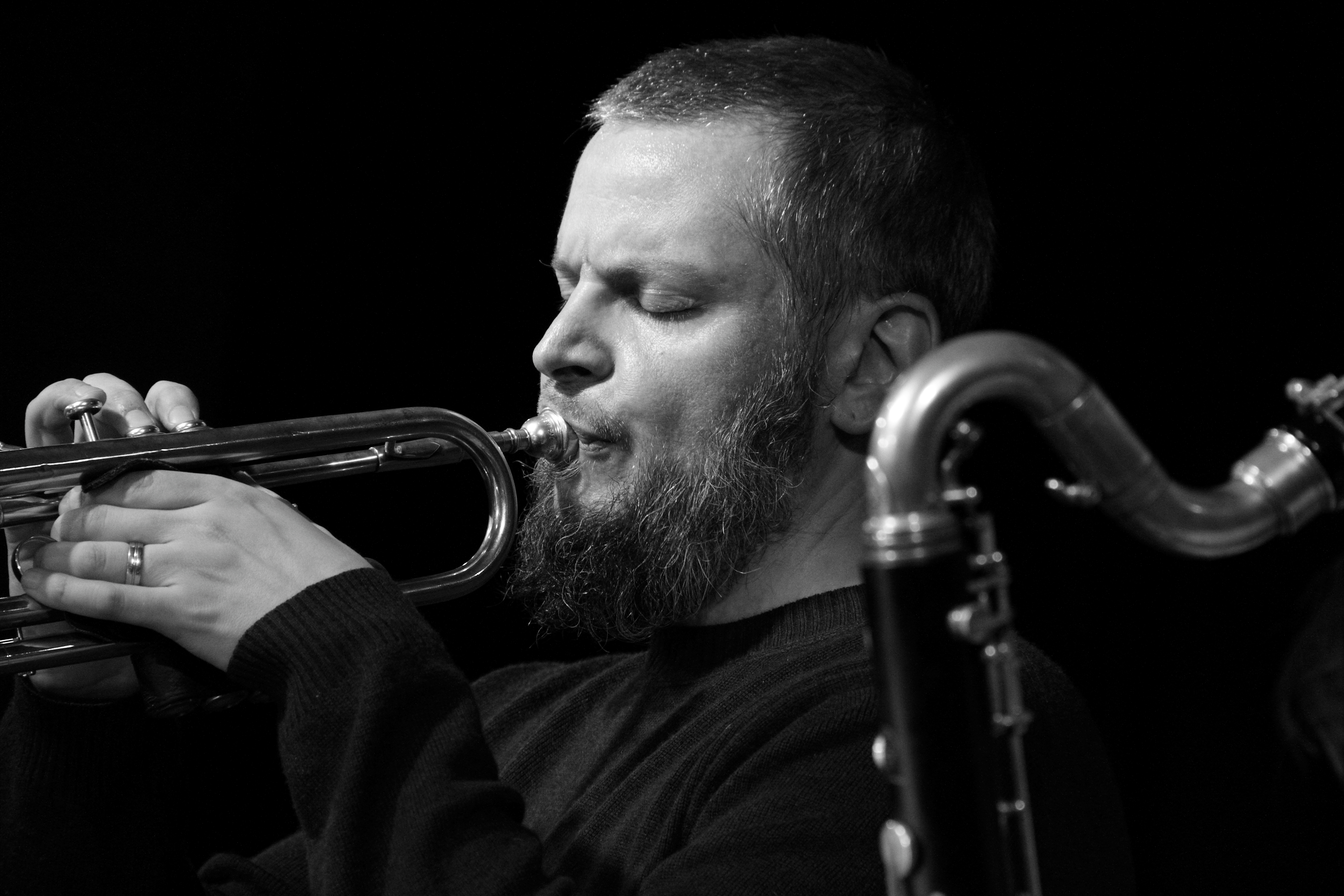 The Nate Wooley Quintet in concert at Club W71, Weikersheim..